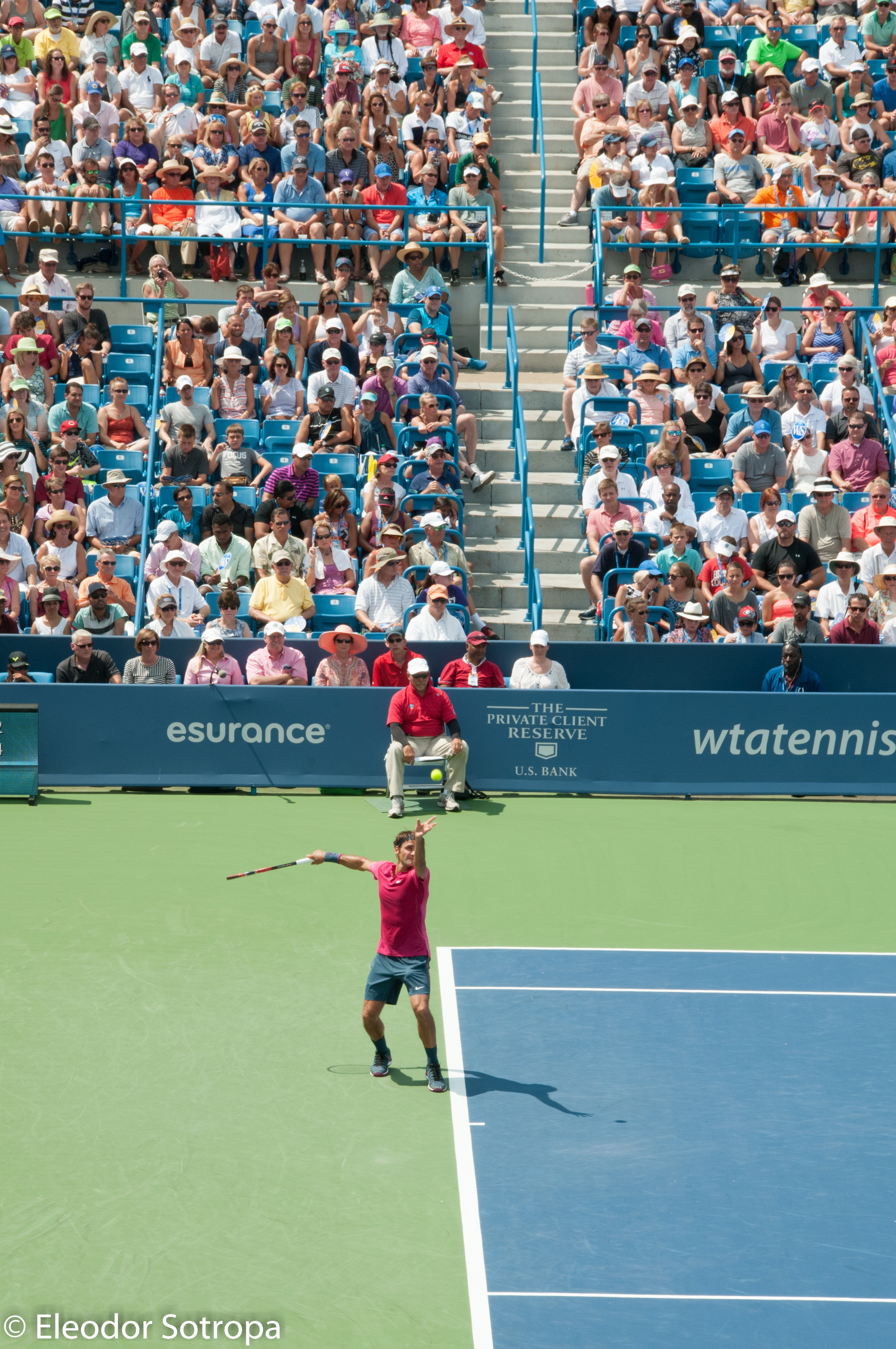 Cincinnati-Tennis-2015-ATP-WTA-109